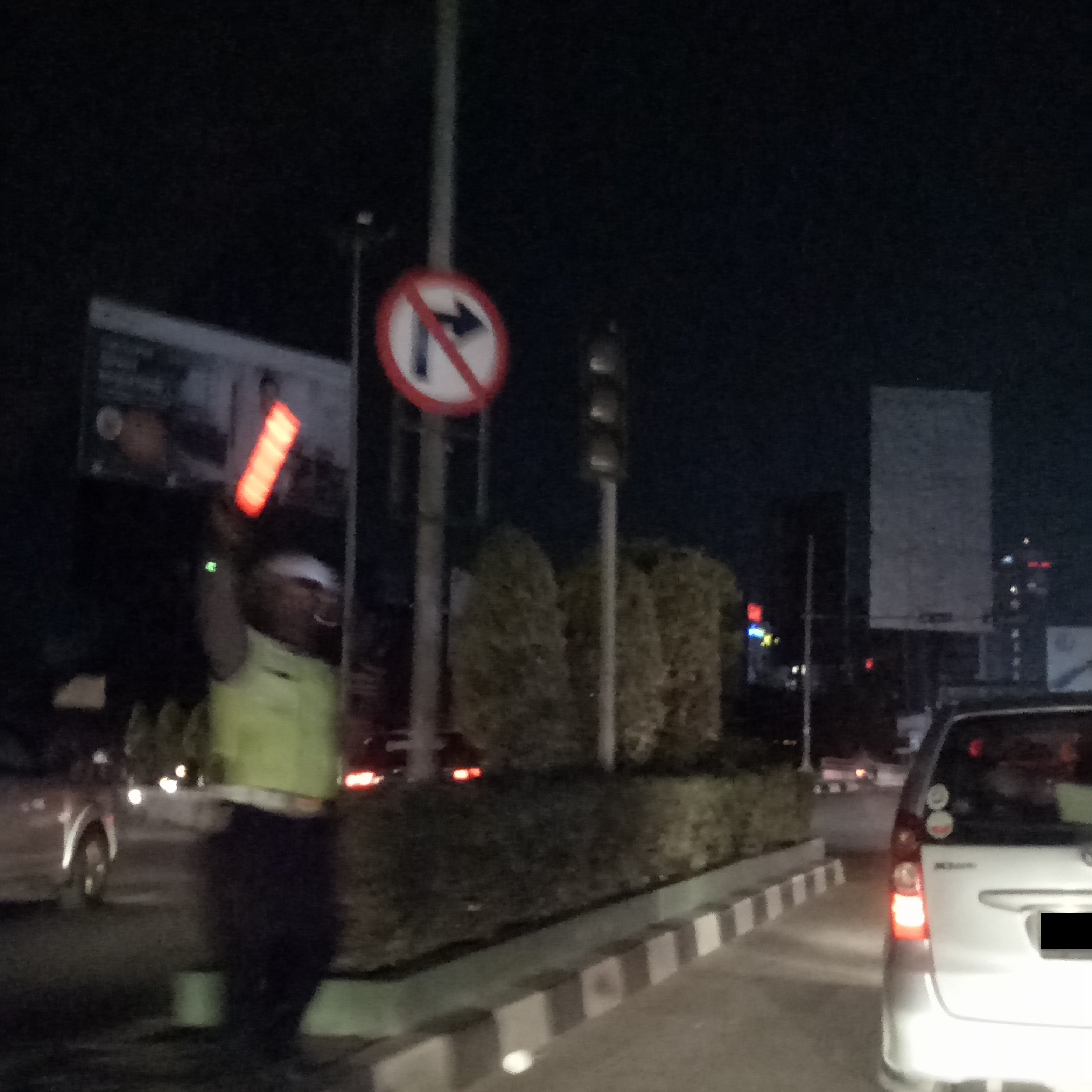 Police Officer Manage Traffic During Blackout In Bekasi